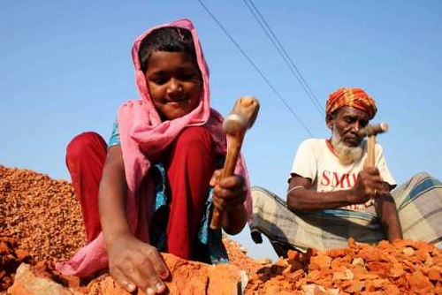 Child labor, can't we try to stop it?